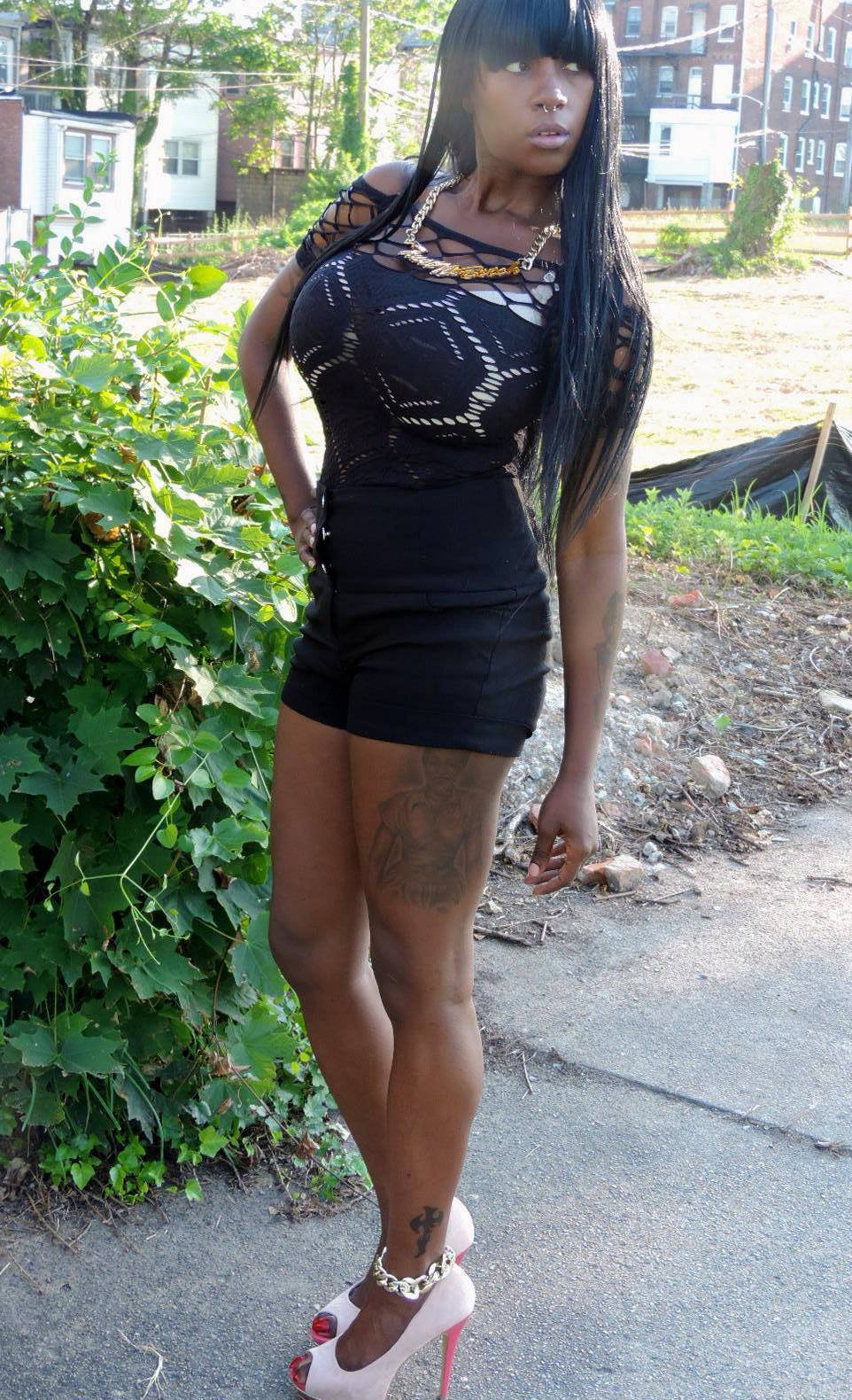 Monique Dupree modeling her "Liz" Store merchandise 2014